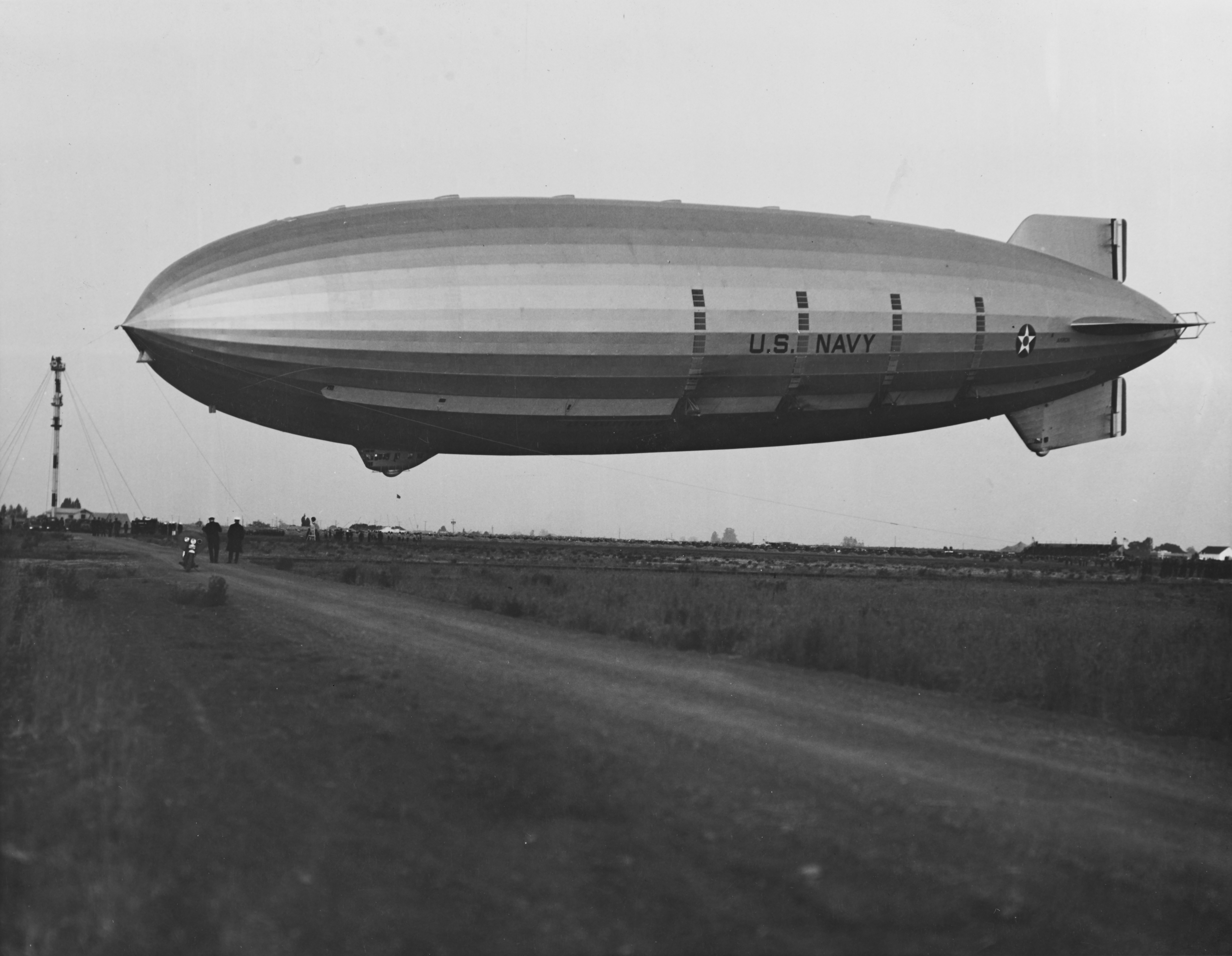 USS Akron (ZRS-4) approaches the mooring mast, while landing at Sunnyvale, California (USA), 13 May 1932.